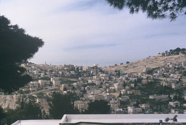 The Dome of the Rock from Abu Dis. February 2001.